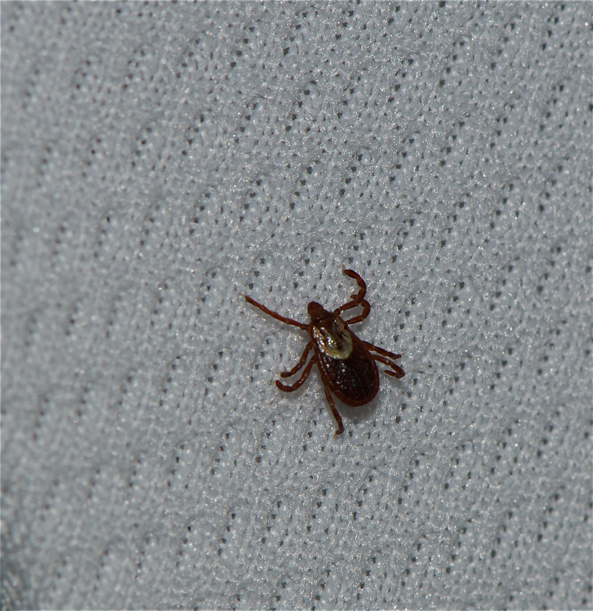 Dermacentor occidentalis